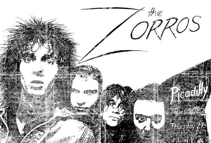 Nic Chancellor Vocals, Mark Fleming Drums, Tim Dexter Bass, Darren Smith Guitar. We had $2 and a 4 shot photo booth so we swapped places after 2 shots to achieve this. Nov 1984.